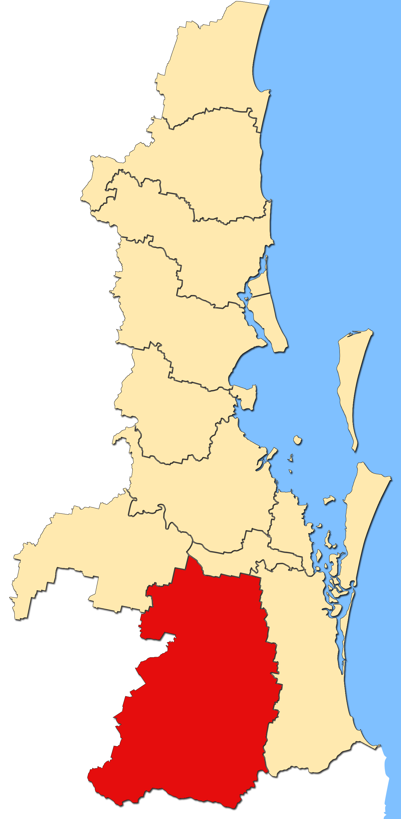 Map of South East Queensland urban local government areas, with Beaudesert Shire highlighted. Created by MagpieShooter.